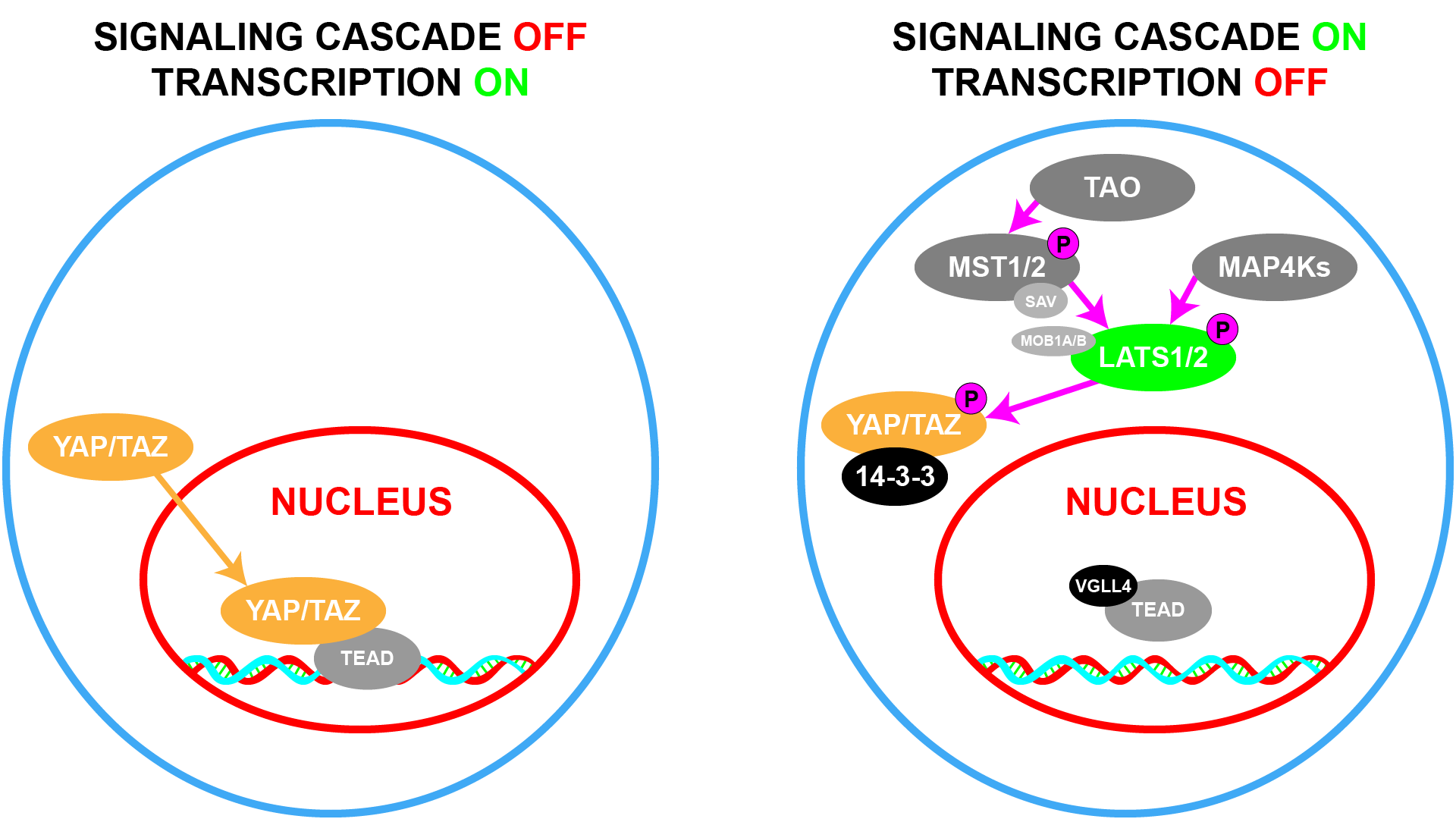 On the left, YAP/TAZ is allowed into the nucleus for transcription. On the right, a series of signaling cascade kinases prevent YAP from localizing to the nucleus for transcription.